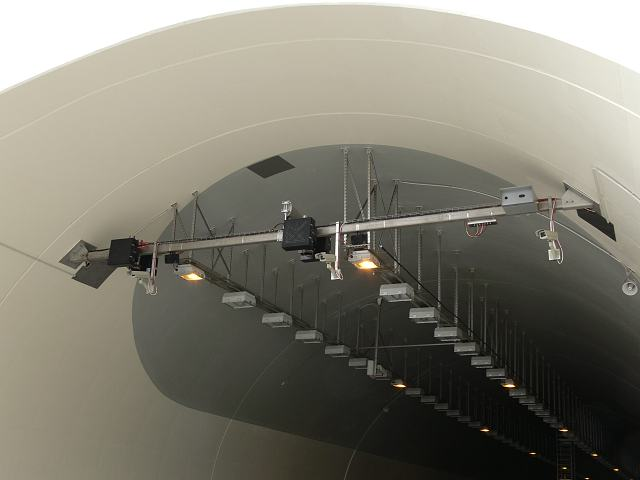 Tunnel Valík, Highway D5, Czech Republic; portál s kamerami